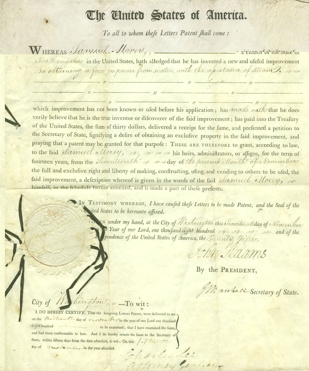 Steam Engine: US Patent X306 issued to Samuel Morey of Orford, Grafton County, NH